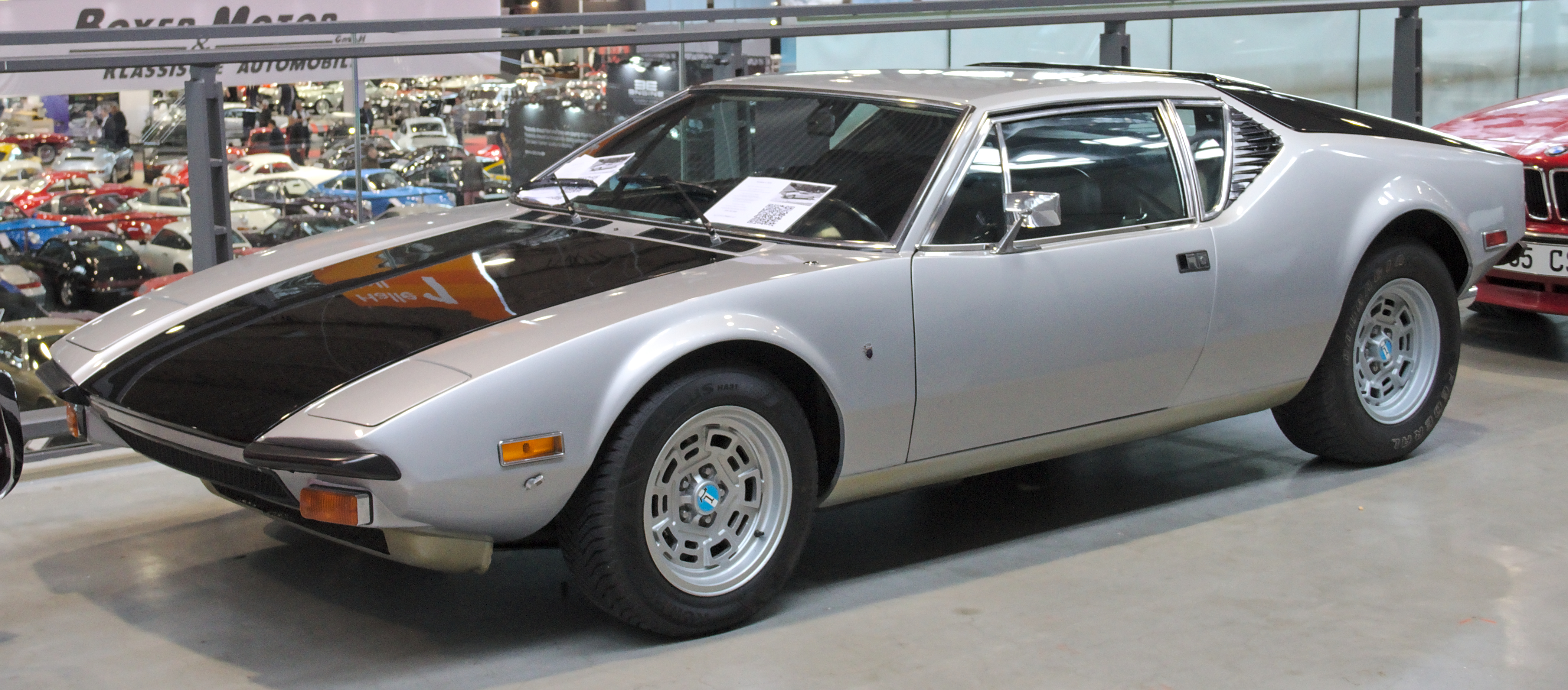 De_Tomaso_Pantera_L at Retro Classics 2020